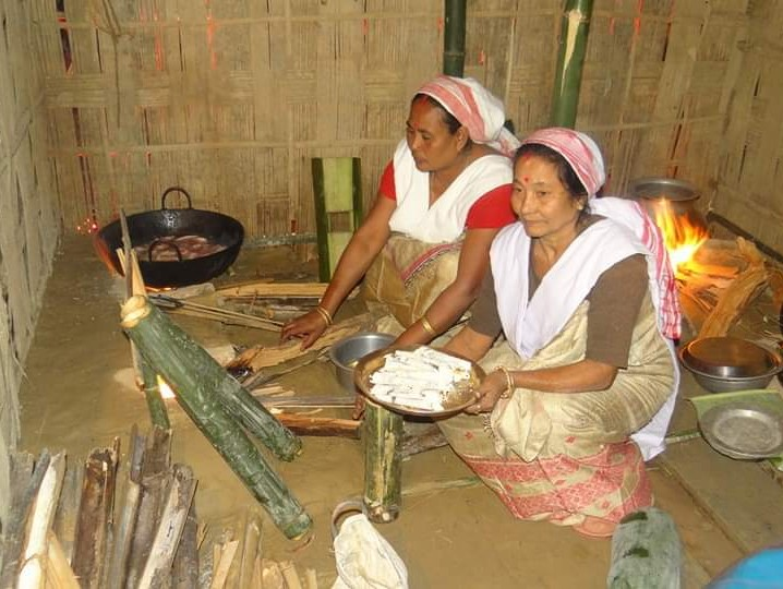 Women of Chutia tribe preparing pithas during Bihu